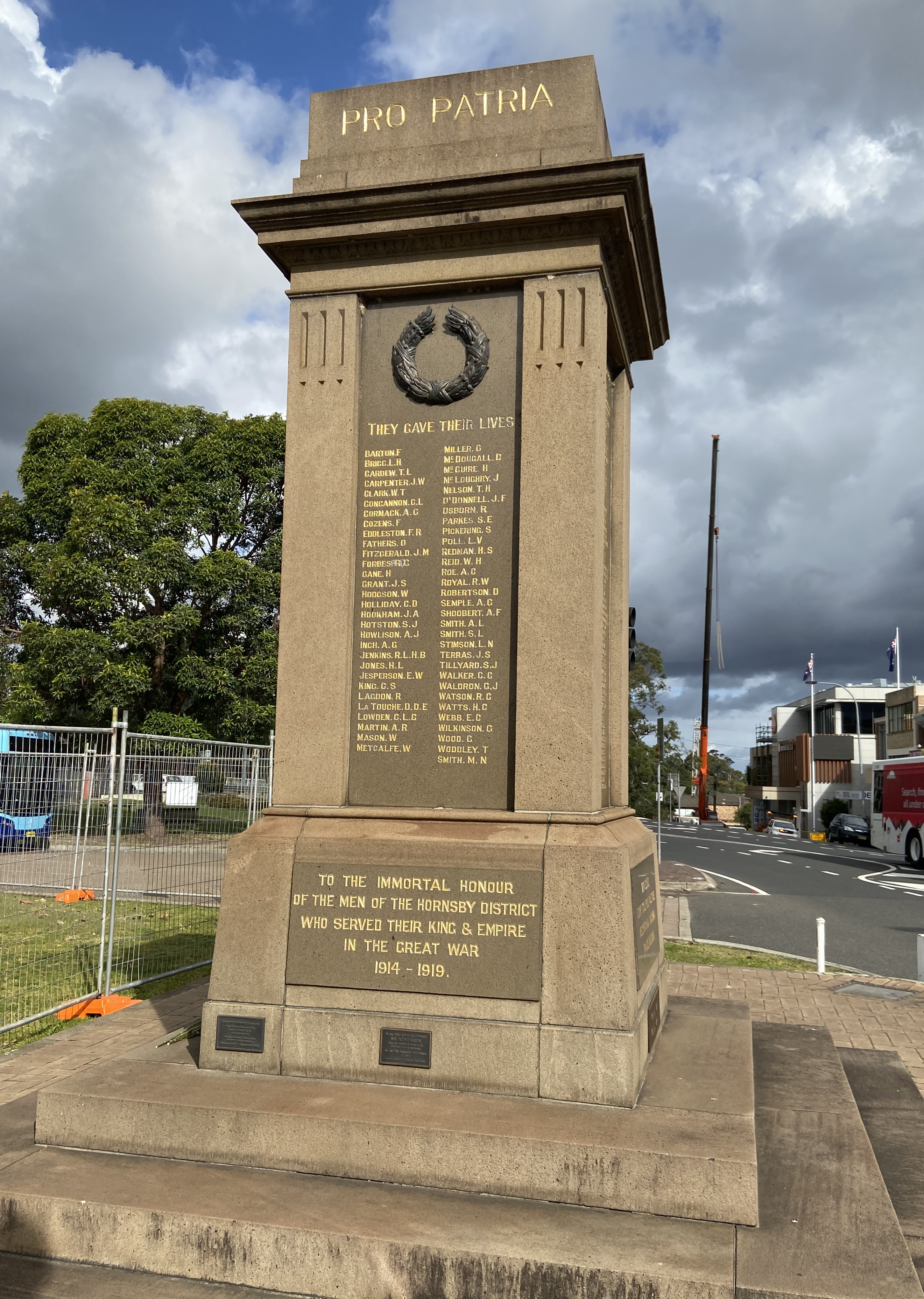 Image of the Hornsby War Memorial Cenotaph which was unveiled on the 27th of April 1923. The memorial was erected in honour of locals who fell in World War 1.